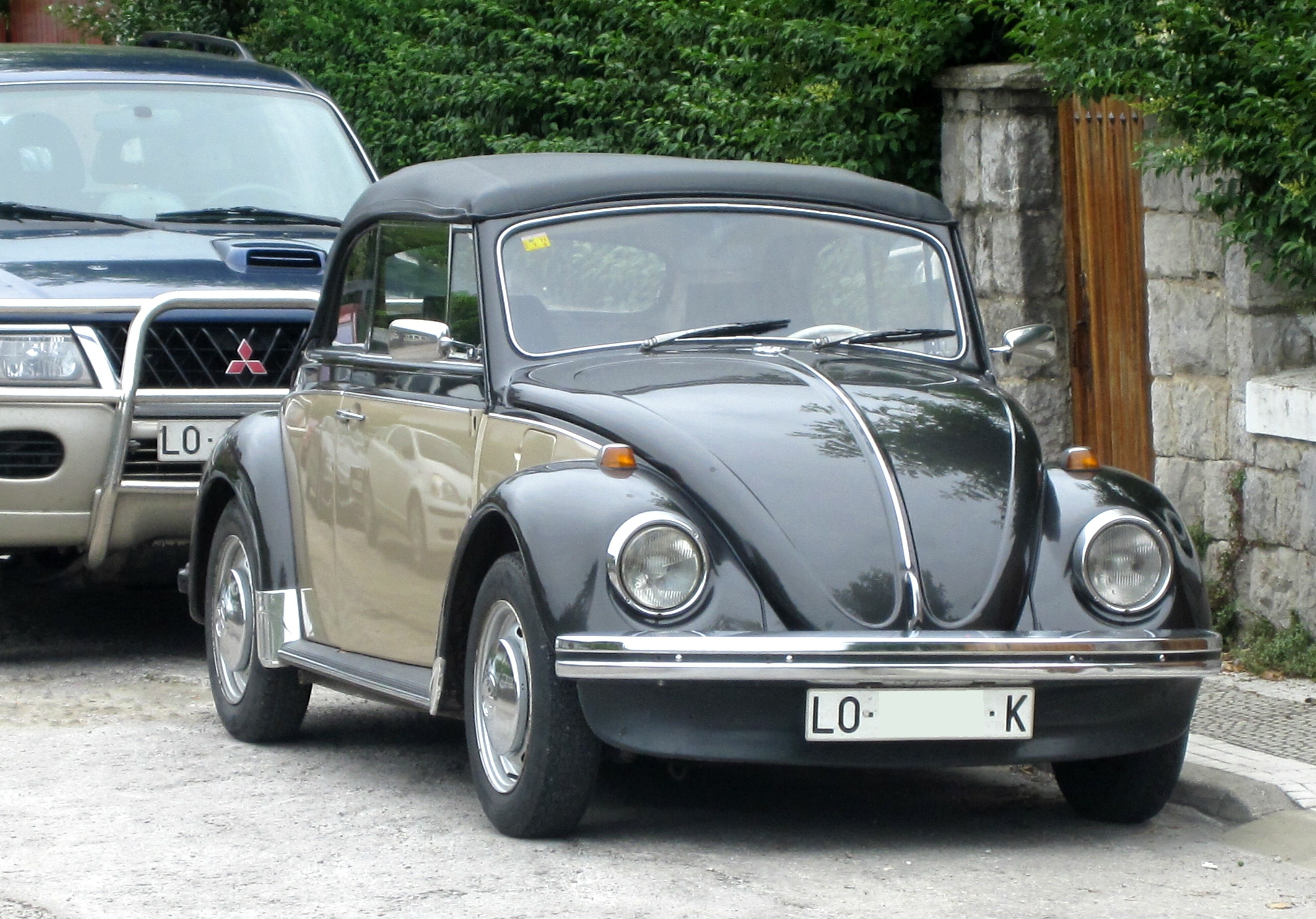 1991 plates from Logroño (La Rioja) but seen in Castro Urdiales (Cantabria).